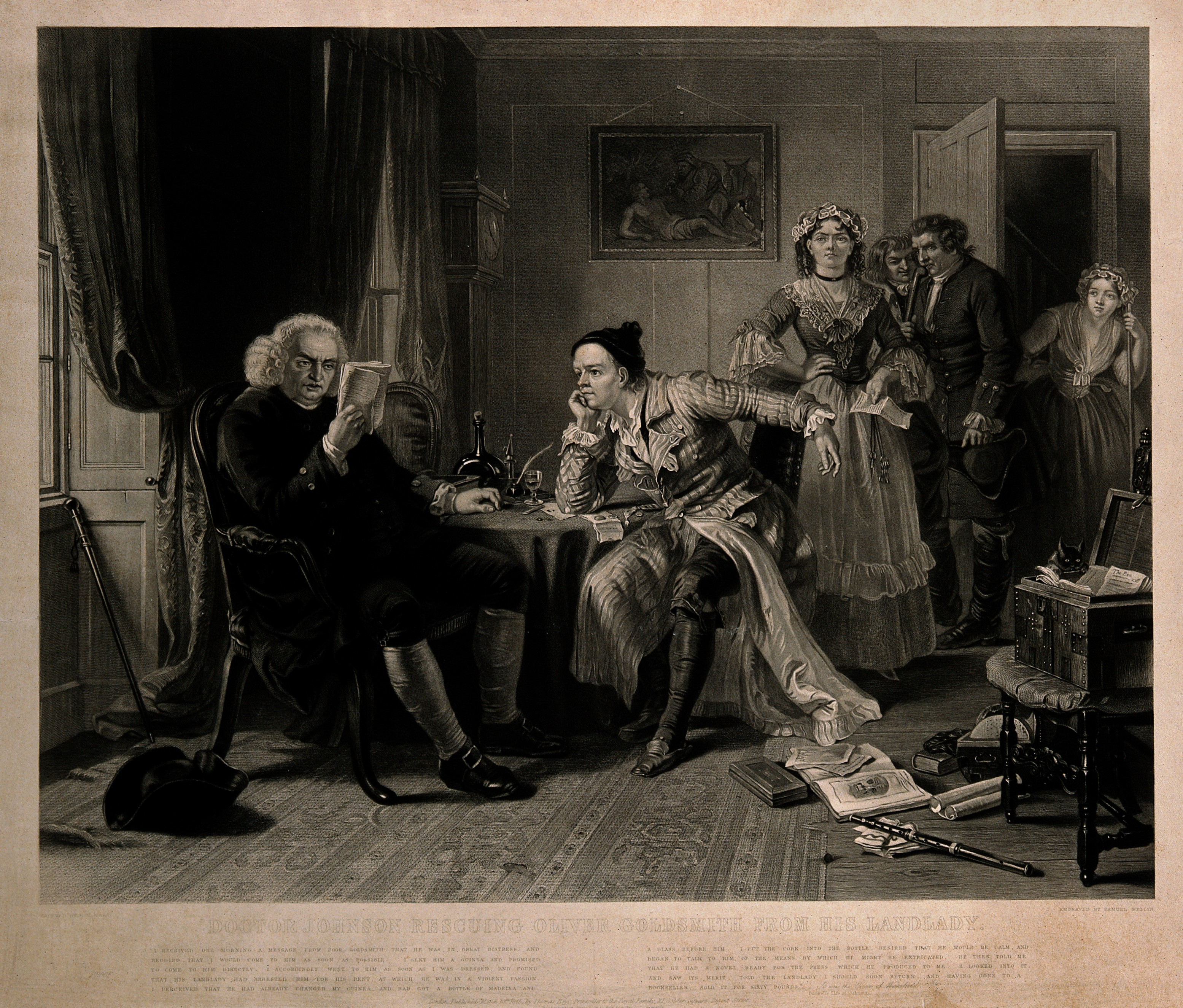 Dr Samuel Johnson reading the manuscript of Oliver Goldsmith's 'The vicar of Wakefield', whilst a baliff waits with the landlady. Mezzotint by S. Bellin, 1845, after E.M. Ward. Iconographic Collections Keywords: Edward Matthew Ward; James Boswell; Oliver Goldsmith; Samuel Bellin; Samuel Johnson